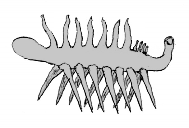 Halucigenia as originally reconstruicted (i.e. upside-down!) Ref: Gould, S.J. (1990 isbn=0091742714) "Walcott's vision and the nature of history" in Wonderful Life, London: Hutchinson Radius, p. 154